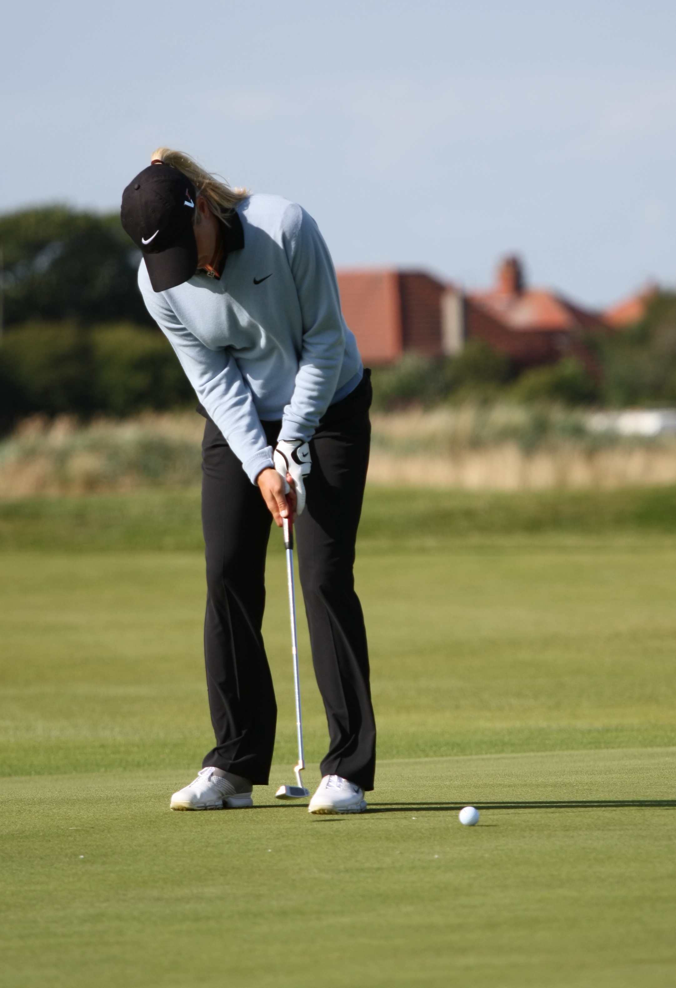 LYTHAM ST ANNES, UNITED KINGDOM - JULY 27: Suzann Pettersen of Norway at the 17th green during first practice round before 2009 Ricoh Women's British Open held at Royal Lytham & St Annes on July 27, 2009 in Lytham St Annes, England. (Photo by Wojciech Migda)